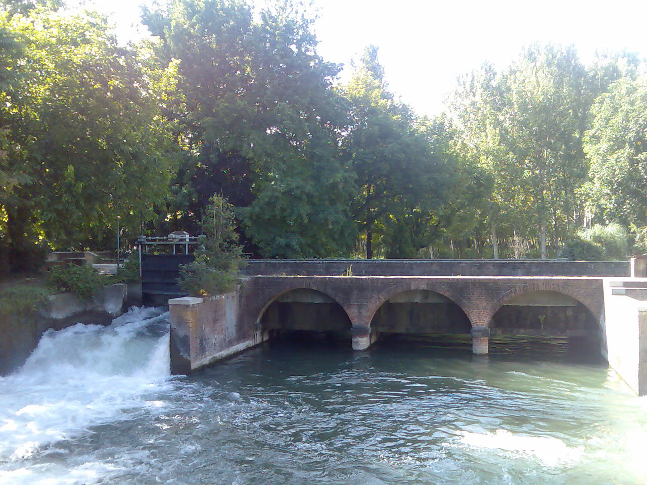 At Tombe Morte, important hydrographical node 30 km North-West of Cremona, Canale Pietro Vacchelli passes over Naviglio Pallavicino with a characteristic bridge built in late 19th century.